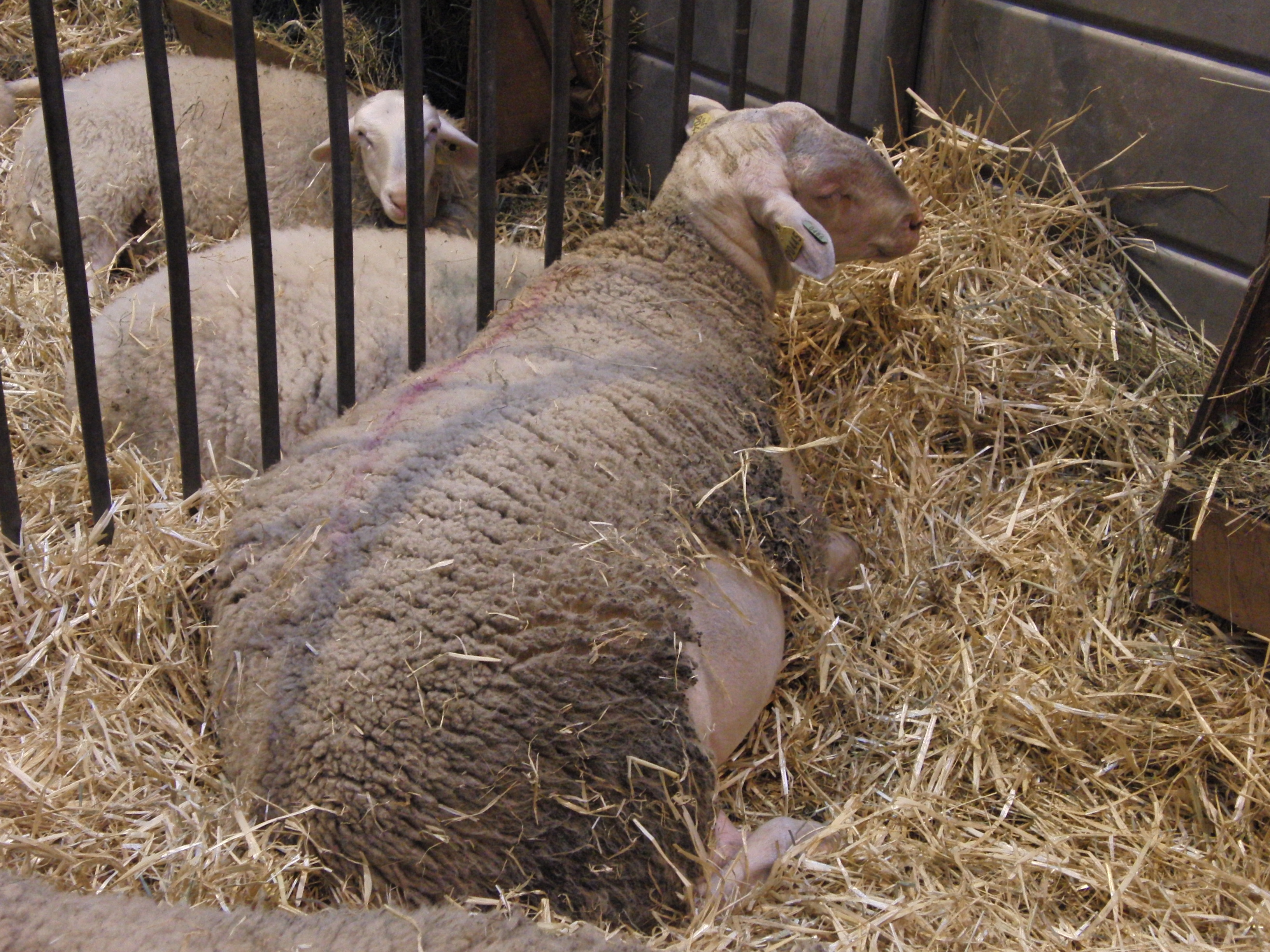 Blanche du Massif Central sheep - Salon international de l'agriculture 2011, Paris, France